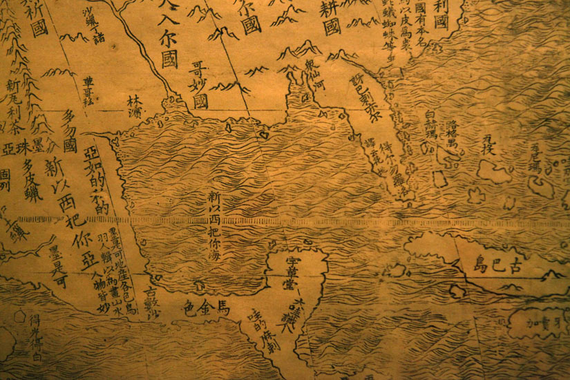 Detail of the Kunyu Wanguo Quantu map, created in 1602 by Italian Jesuit missionary Matteo Ricci. The map was the first in Chinese to show the Americas. This crop shows the portion of the map encompassing Florida, Mexico, and the Yucatán.